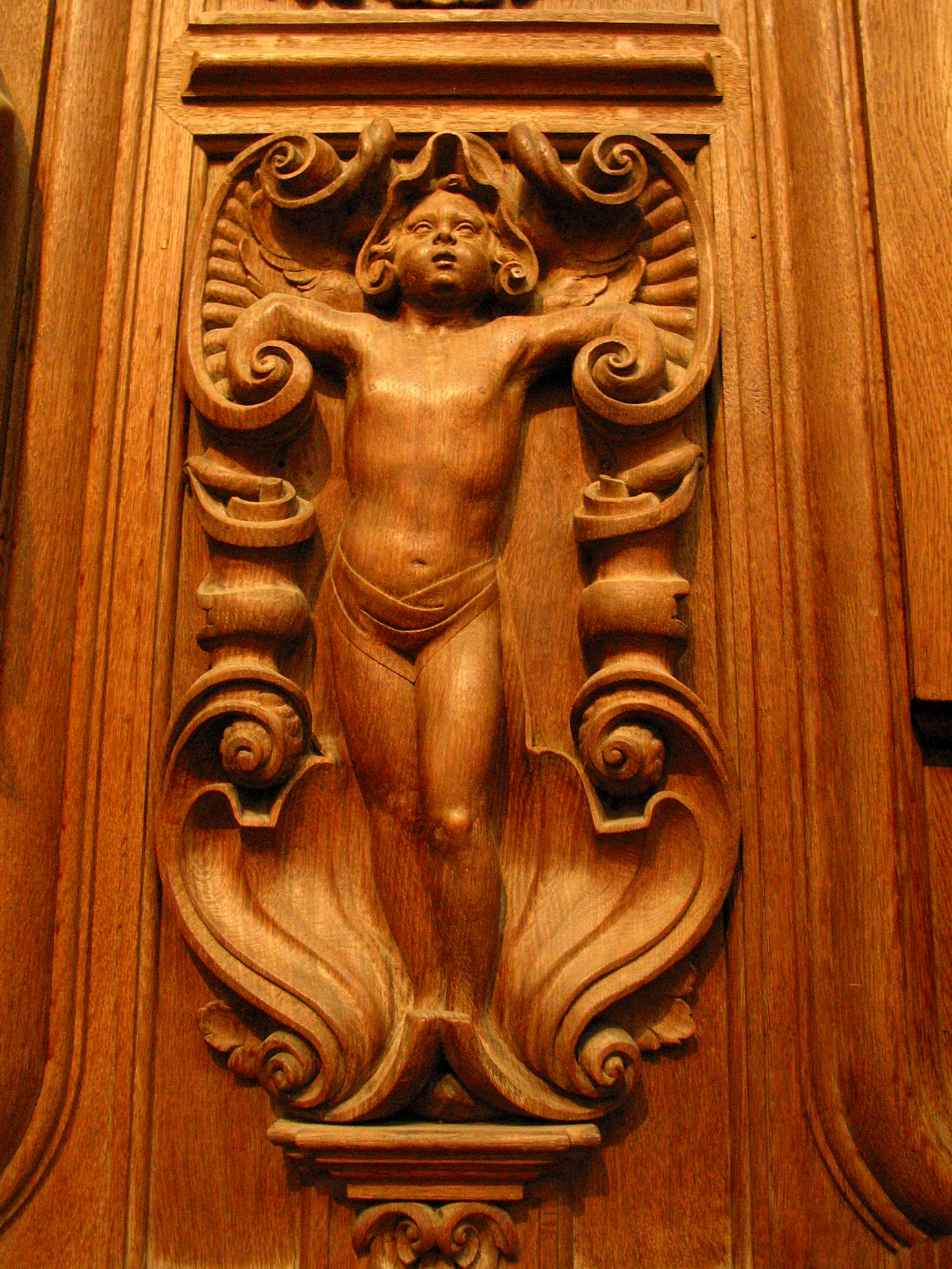 Wooden Baroque relief — interior of the Abbaye de Floreffe, in Floreffe, Belgium. Example of Baroque wood carving in Belgium.